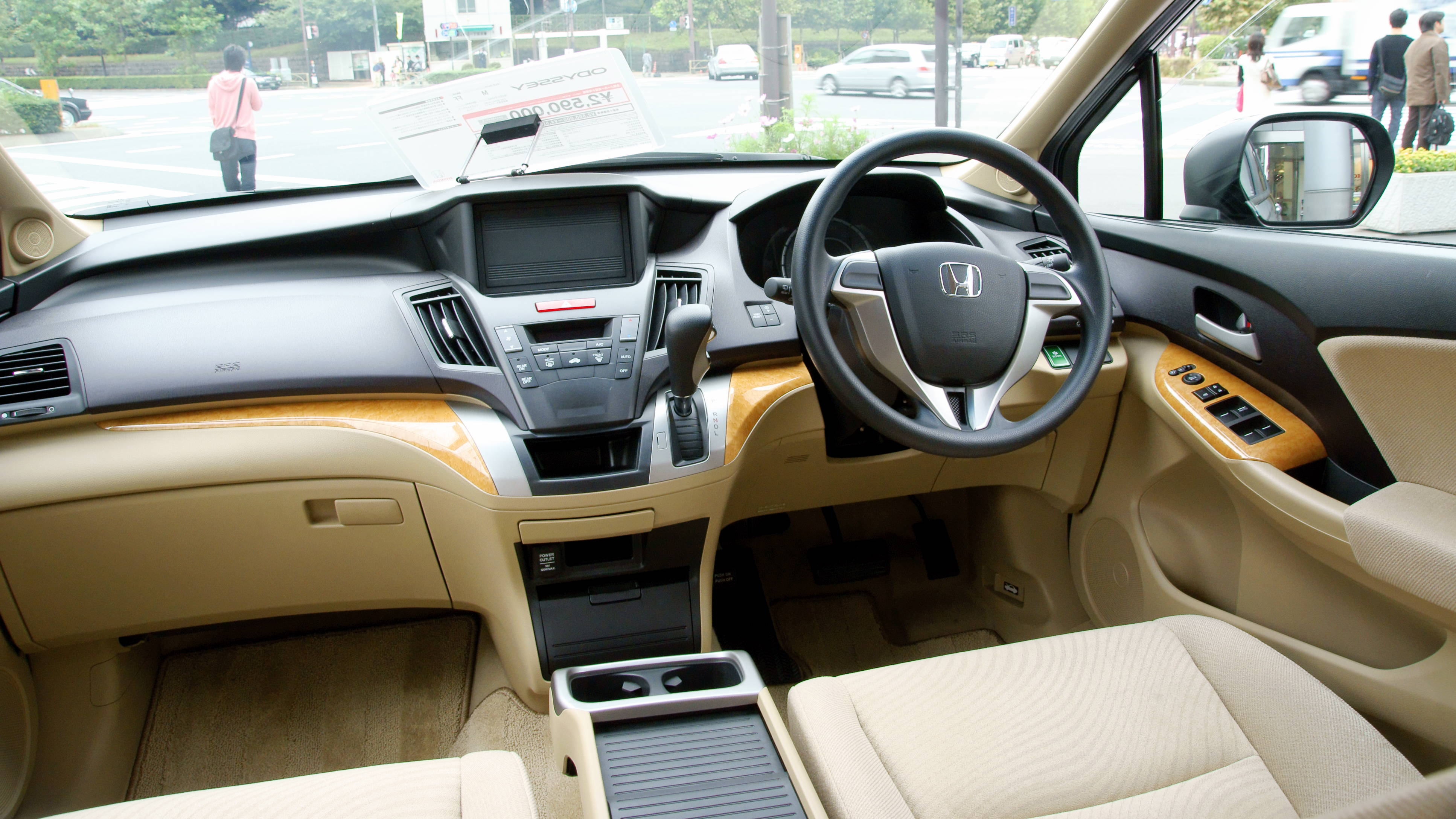 2008 RB3/4 Honda Odyssey Absolute Interior photographed in Honda Welcome Plaza Aoyama (Minato, Tokyo)